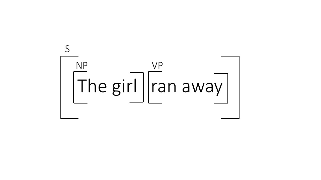 Demonstrates how a noun phrase and verb phrase combine under the principles of syntactic hierarchy to form a sentence